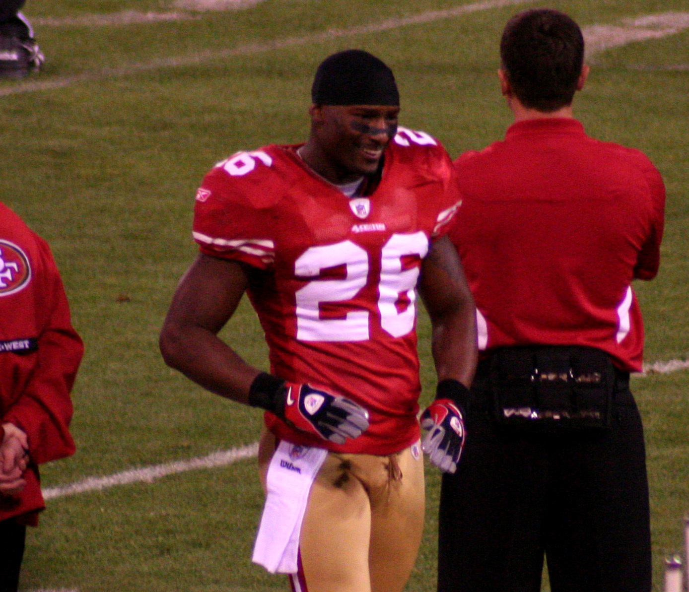 San Francisco 49ers safety Mark Roman against the Chicago Bears, November 2009